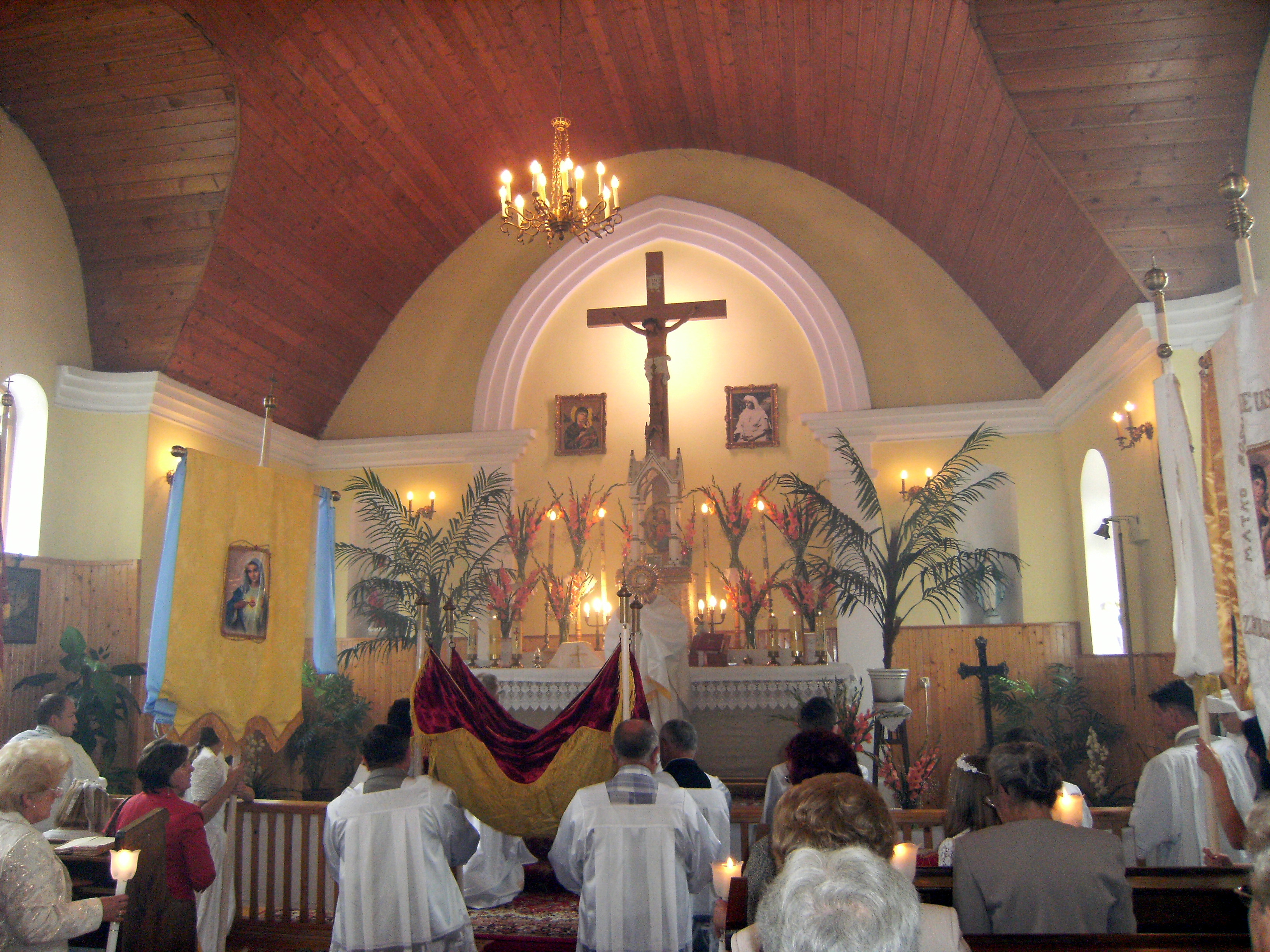 Catholic Mariavite Church in Długa